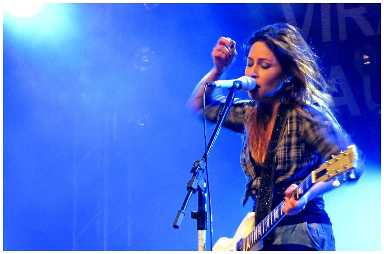 Pitty [Virada Cultural] - Jundiaí (23/05)